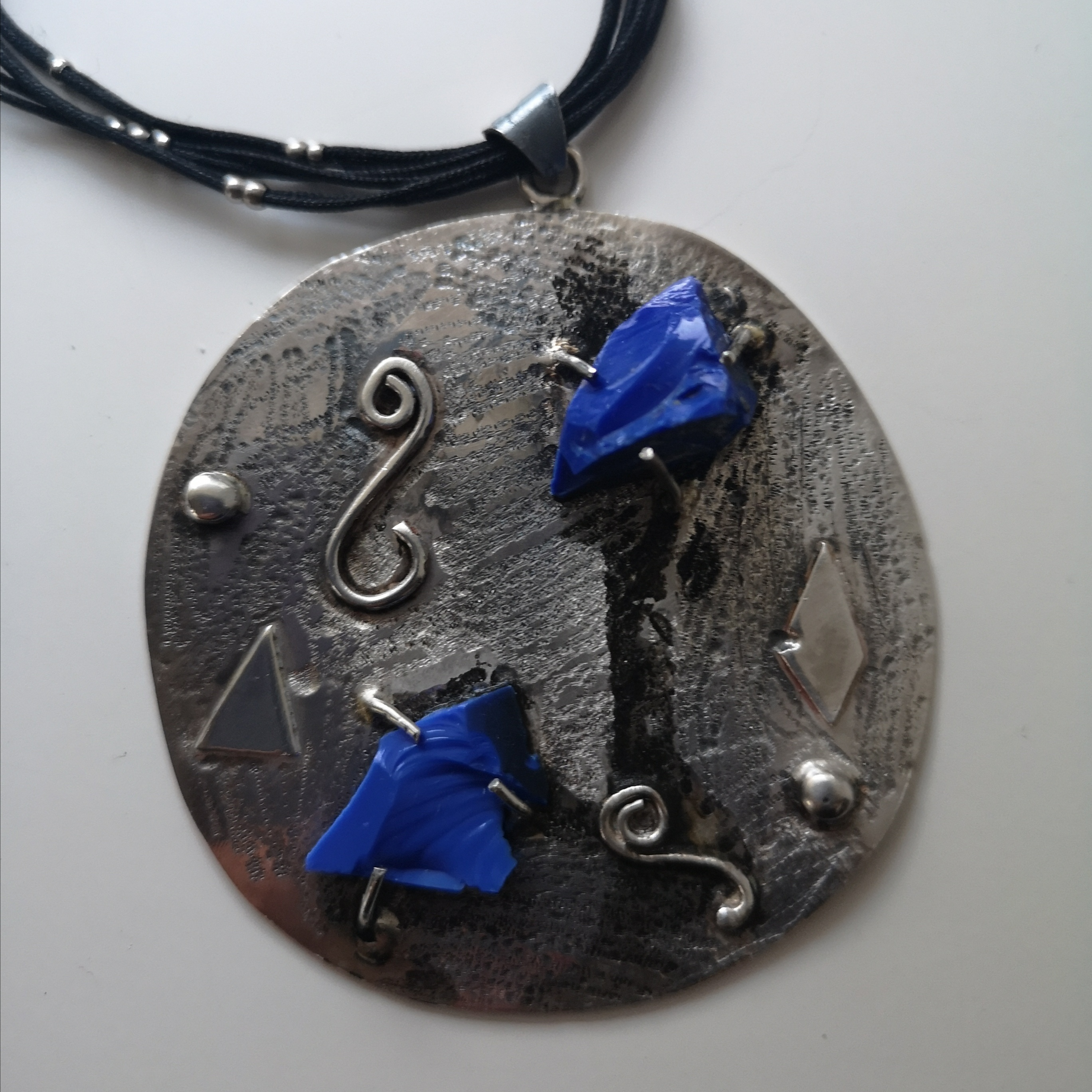 Silver Pendant made with the tessera from "Octopus"